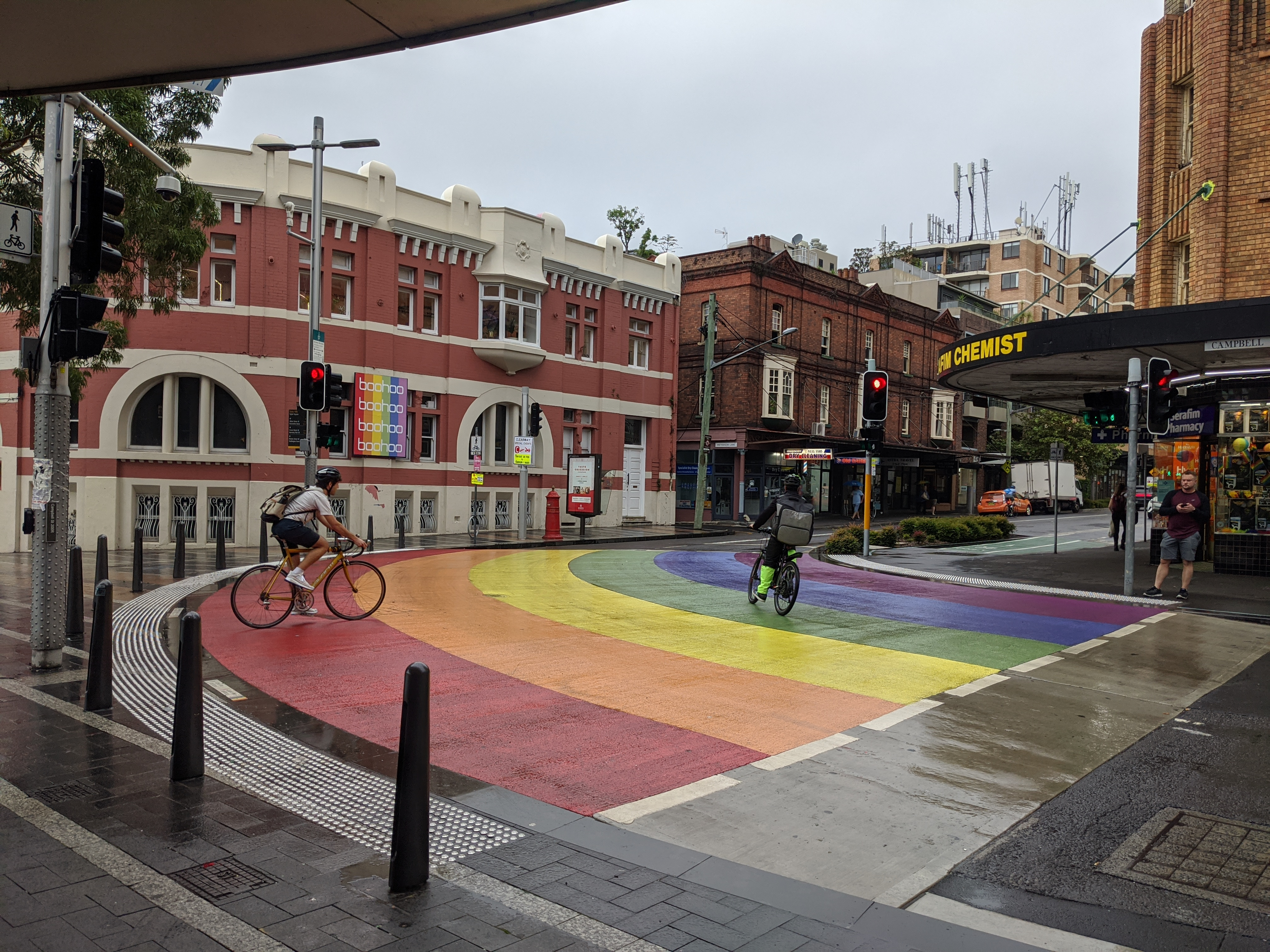 Rainbow Crossing at Taylor Square in Sydney, Australia